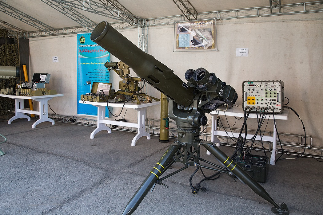 Iranian Toophan missile at presentation